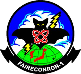 Insignia of the U.S. Navy Fleet Air Reconnaissance Squadron 1 (VQ-1) "World Watchers", in 2016.